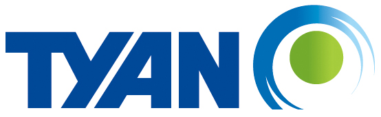 The logo of Tyan Business Unit, MiTAC Computing Technology.